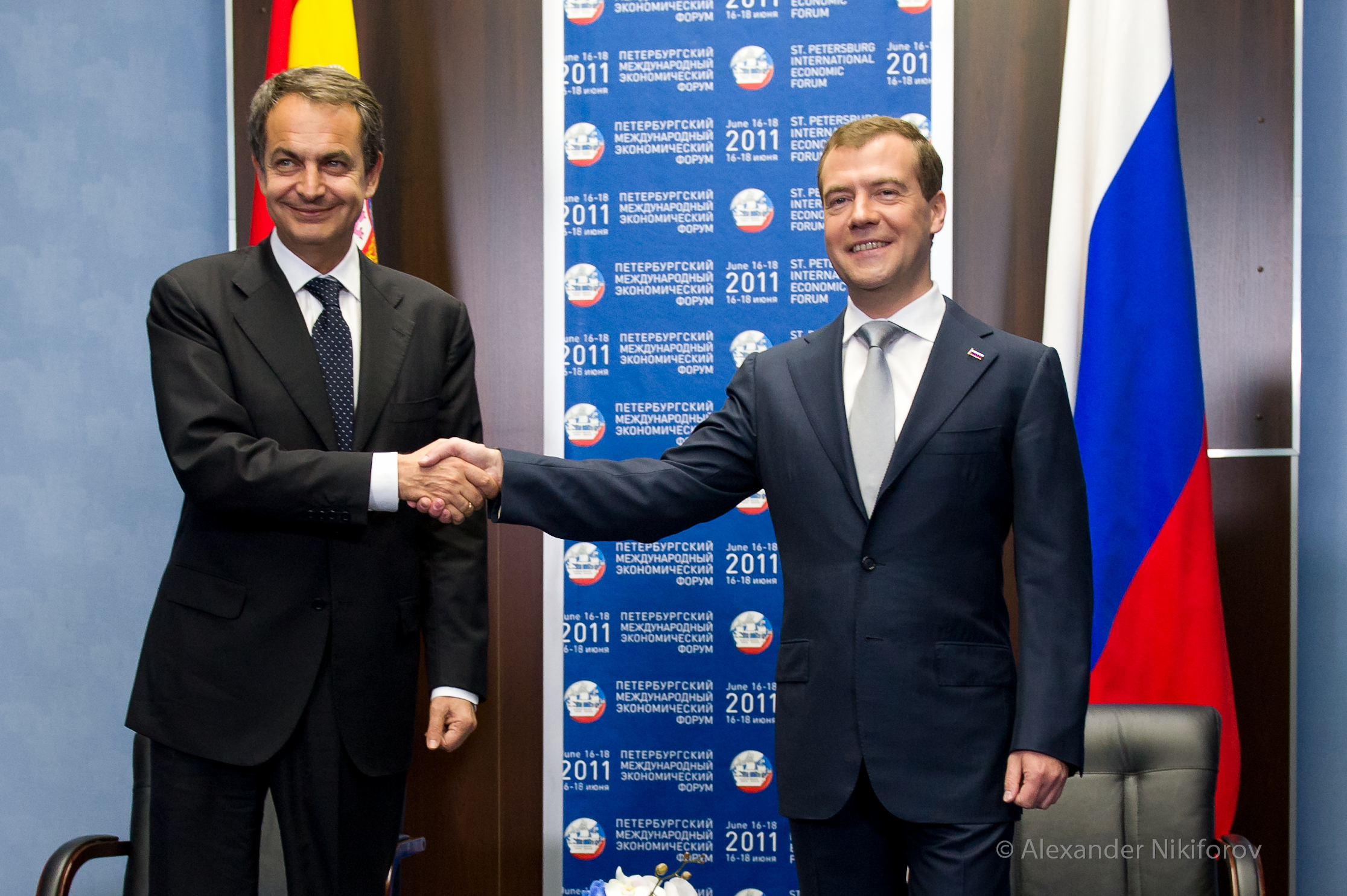 Prime Minister of Spain José Luis Rodríguez Zapatero and the President of Russia Dmitry Medvedev during St. St. Petersburg International Economic Forum